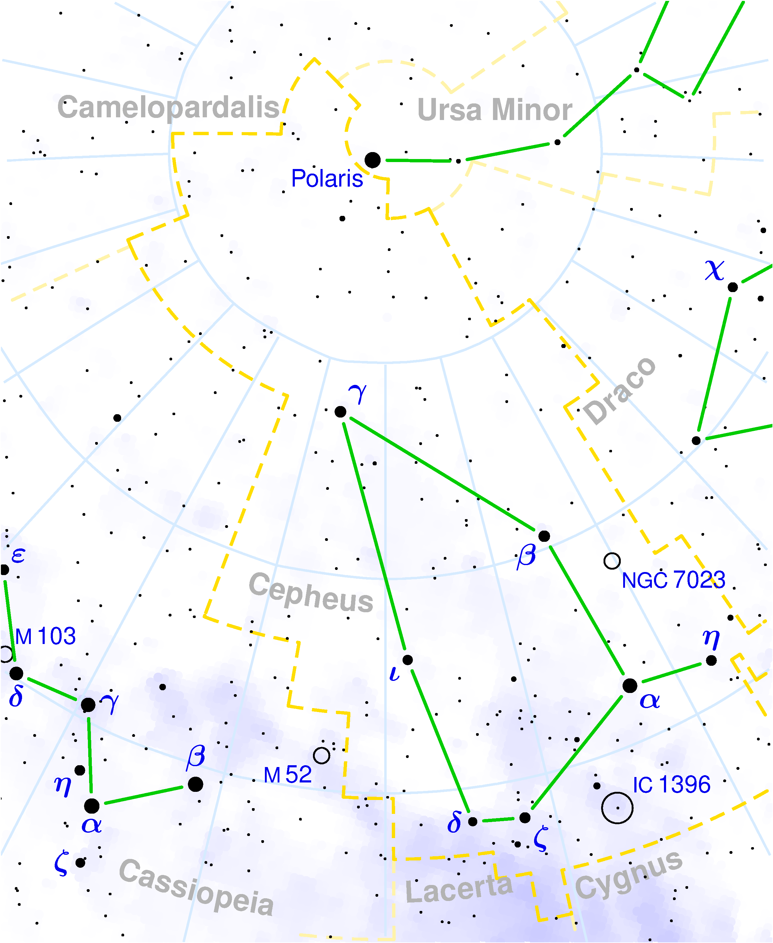 This is a celestial map of the constellation Cepheus.